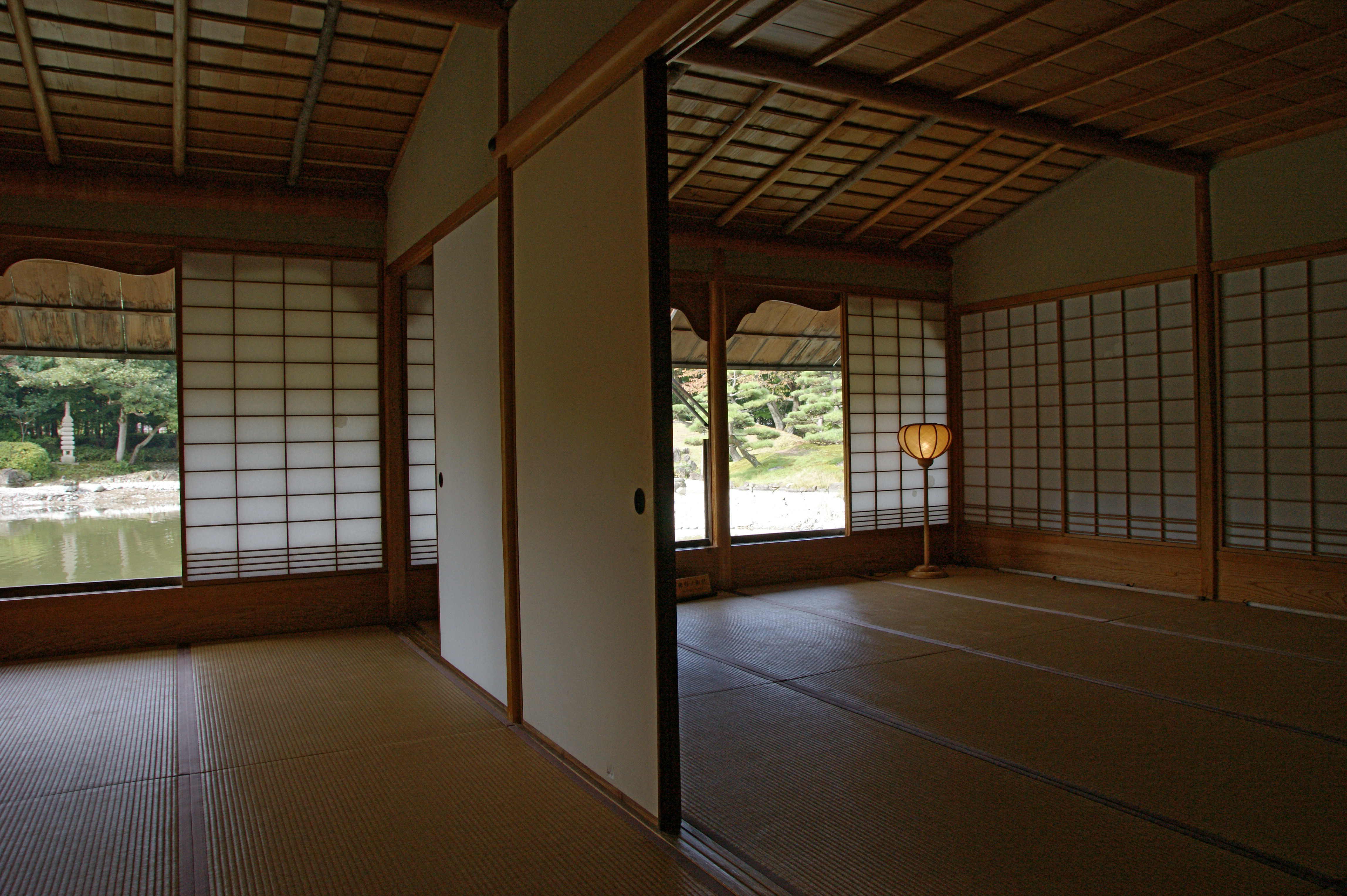 Youkoukan Garden, Fukui, Fukui prefecture, Japan